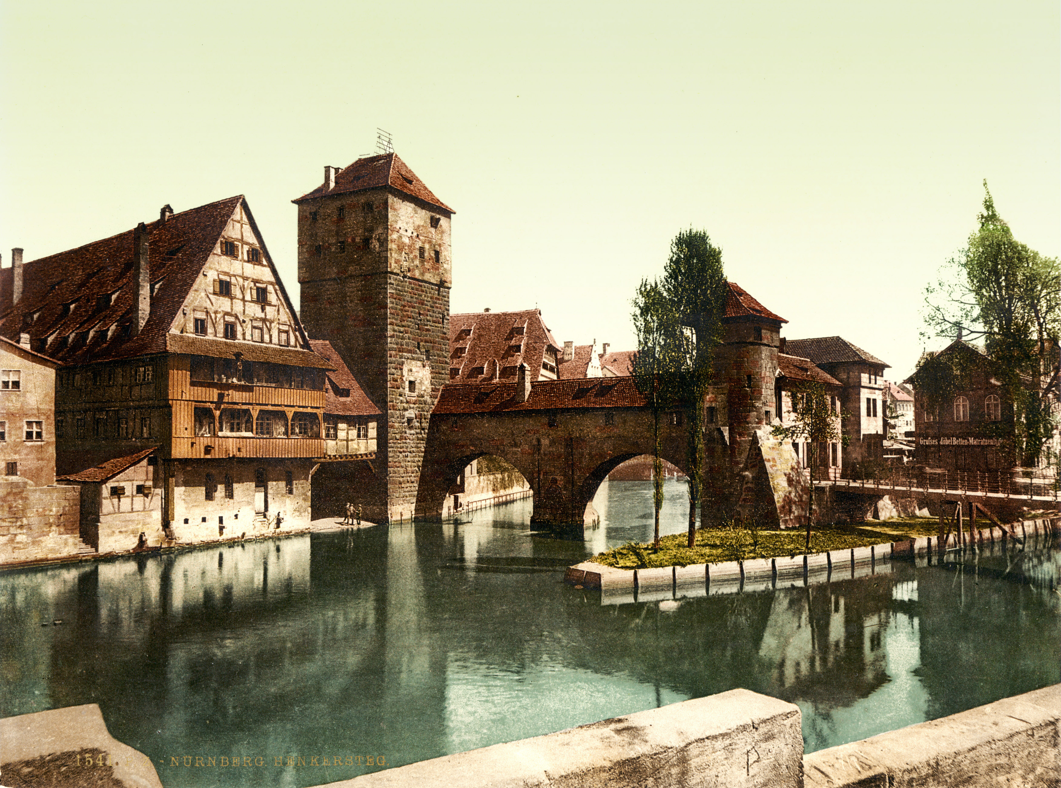 Hangman's Bridge (Henkersteg), Nuremberg (Nürnberg), Bavaria, Germany. 1 photomechanical print : photochrom, color. From "The Hangman's Bridge (Henkersteg) was constructed in 1457 as a wooden bridge. Between the 16th and the 19th century, the Nuremberg hangman lived in the tower and the roofed walk above the river Pegnitz. After the flood of 1595, three arches of the town wall bridging the southern arm of the river Pegnitz were demolished and replaced by the wooden Hangman's Bridge with its tiled roof (reconstructed in 1954). The executioner had to live in segregated accommodation within the city, since his trade was considered "dishonest". Up until the Age of Enlightenment, citizens avoided any physical contact with the hangman, in order not to be excluded from the Christian community."